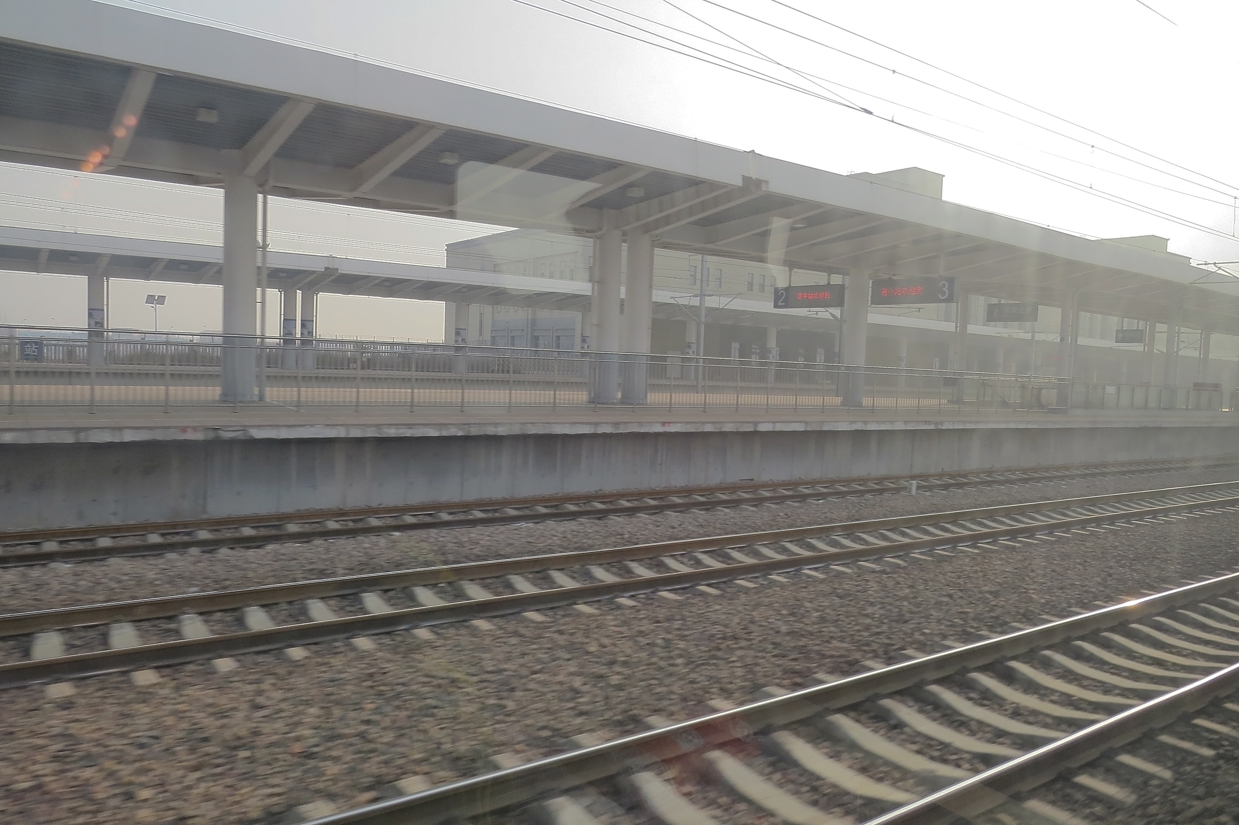 Beiliupu Railway Station is just here, but the platforms are Jinzhong Railway Station.